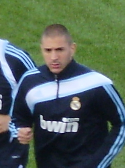 Real Madrid's player (Karim Benzema) form up before international frendly against Toronto FC in Toronto in 2009